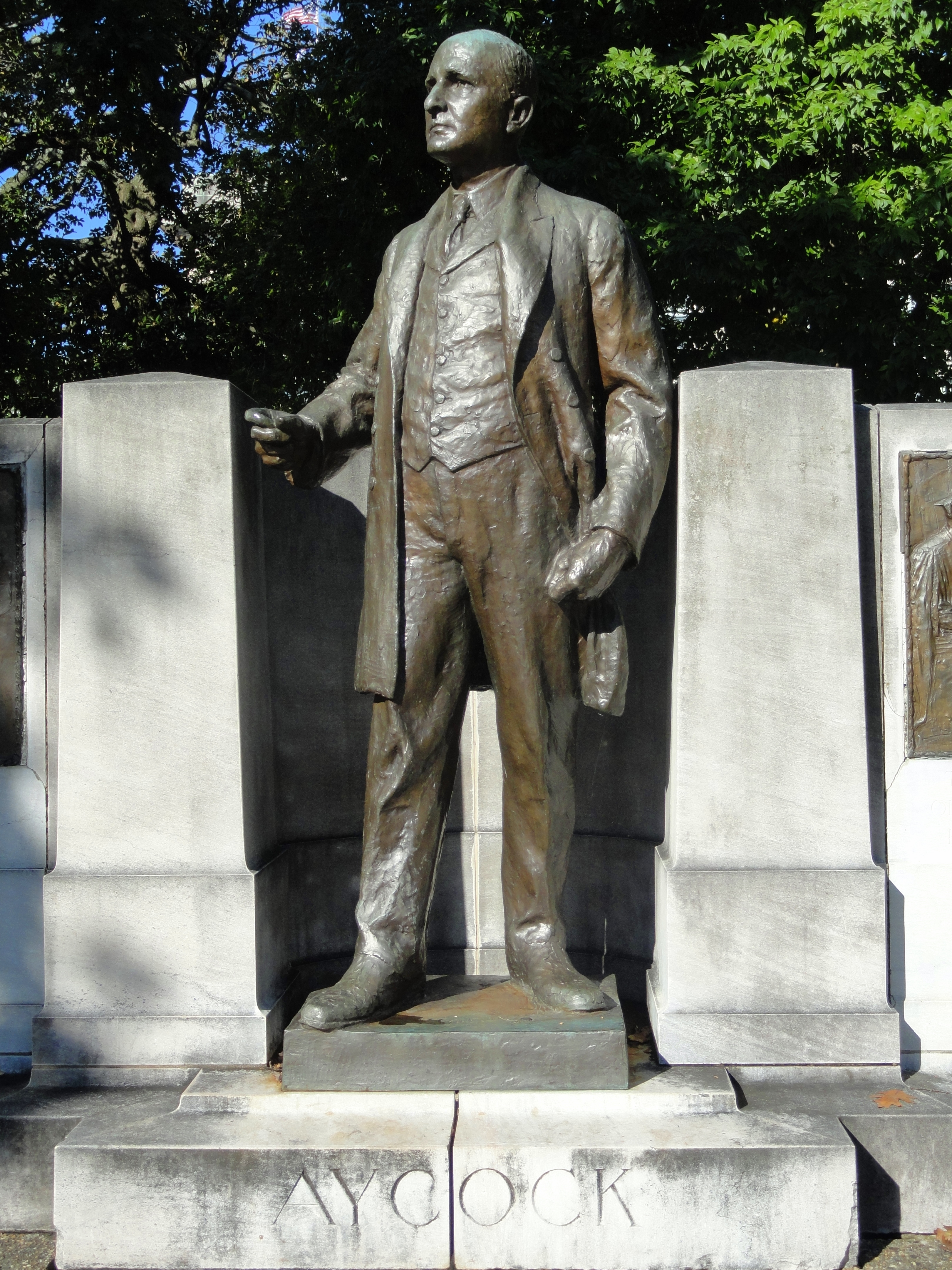 Memorial to Charles Brantley Aycock by Gutzon Borglum. North Carolina State Capitol, Raleigh, North Carolina, USA. Now in the public domain, since Borglum died more than 70 years ago (March 6, 1941).